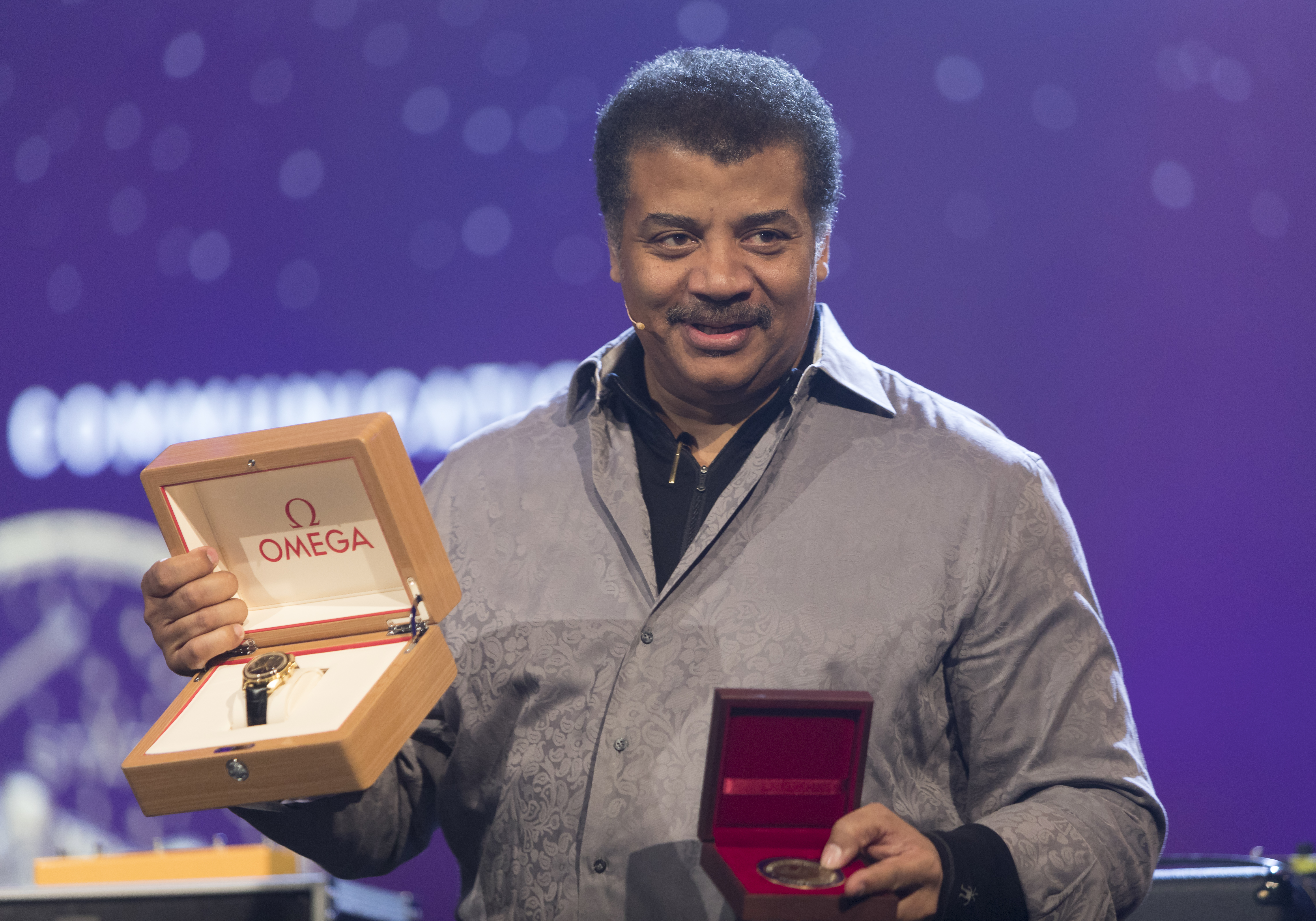 Trondheim 20.06.2017 : The science festival Starmus IV at NTNU, Trondheim, Norway. Stephen Hawking Science Medal Ceremony. Jean-Michel Jarre and Neil deGrasse Tyson receive the Stephen Hawking Science Medal. Photo: Thor Nielsen / NTNU